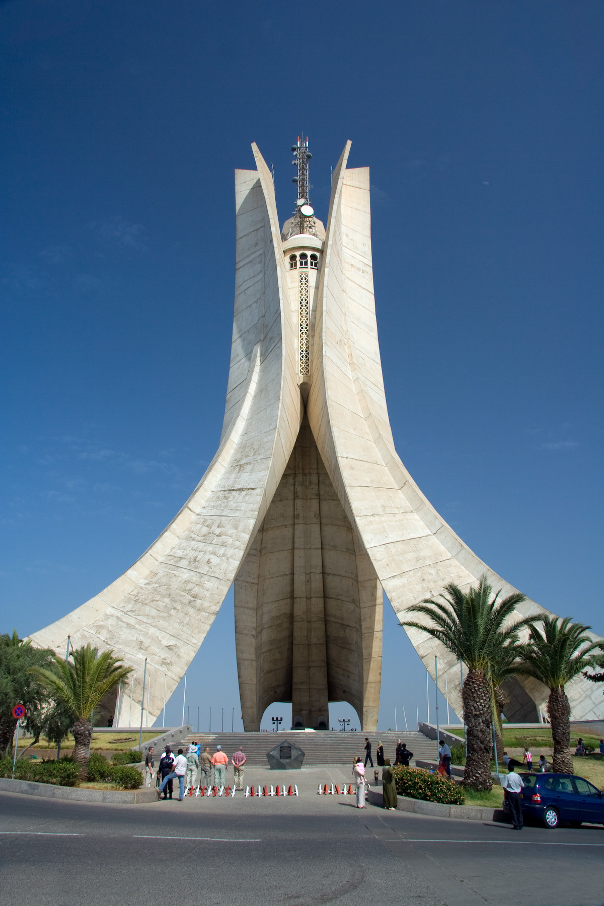 Monument of the Martyrs, Algiers, Algeria.